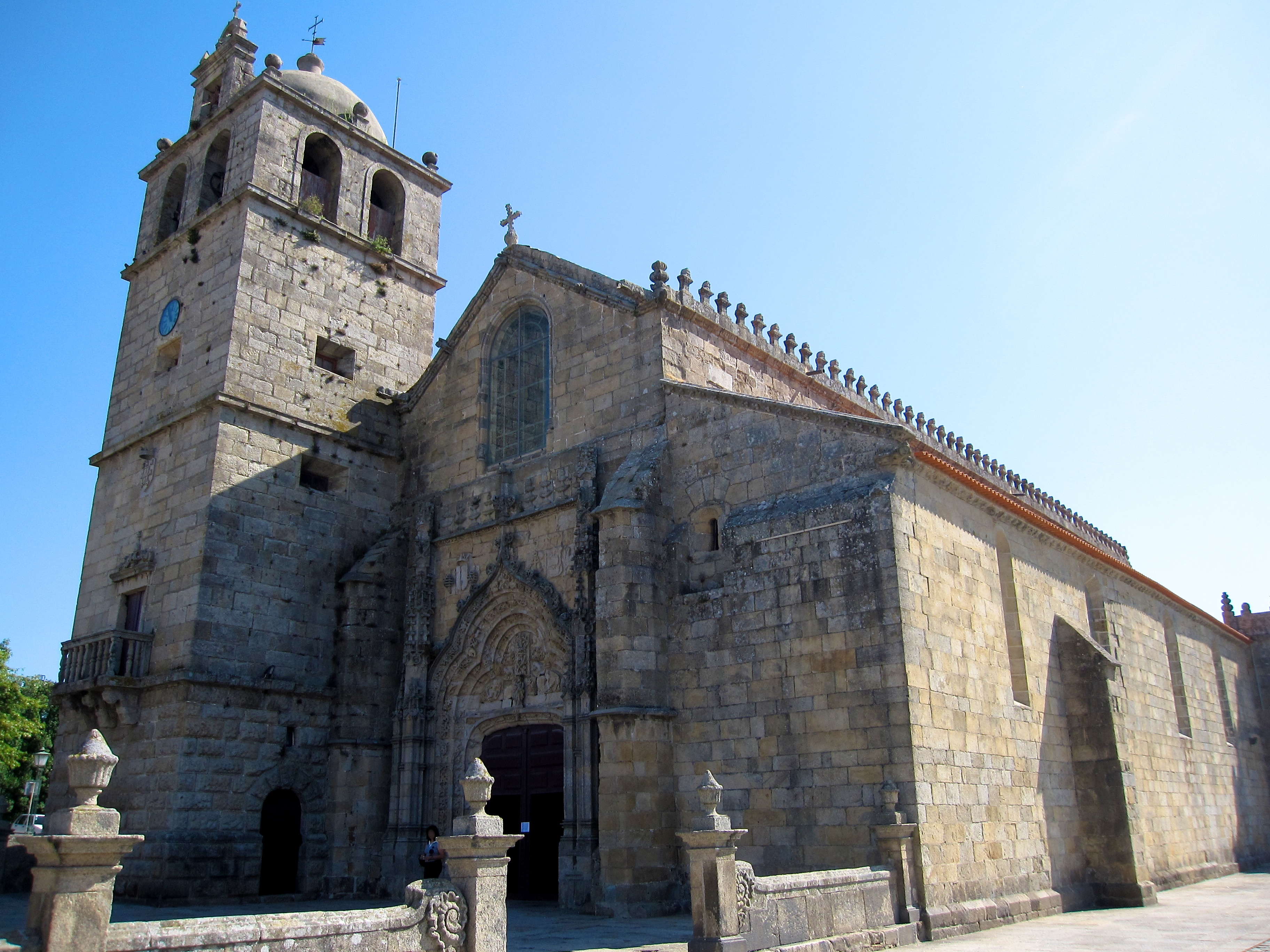 This file was uploaded for Wiki Loves Monuments in Portugal with the unique identifier 71207.